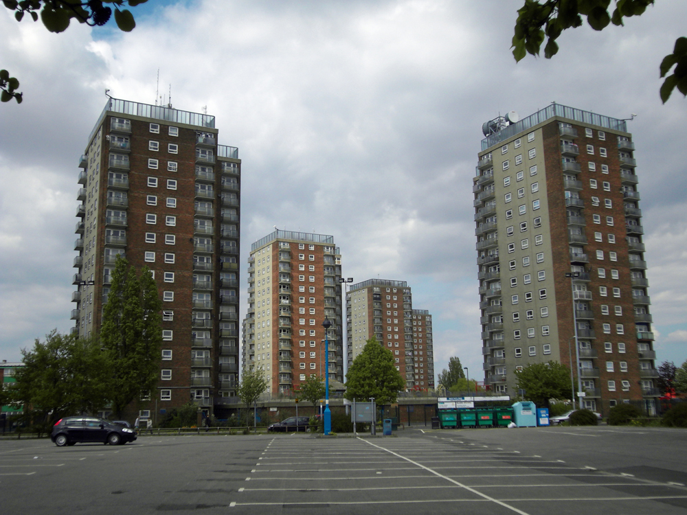 High Rise Flats, East Marsh, Grimsby